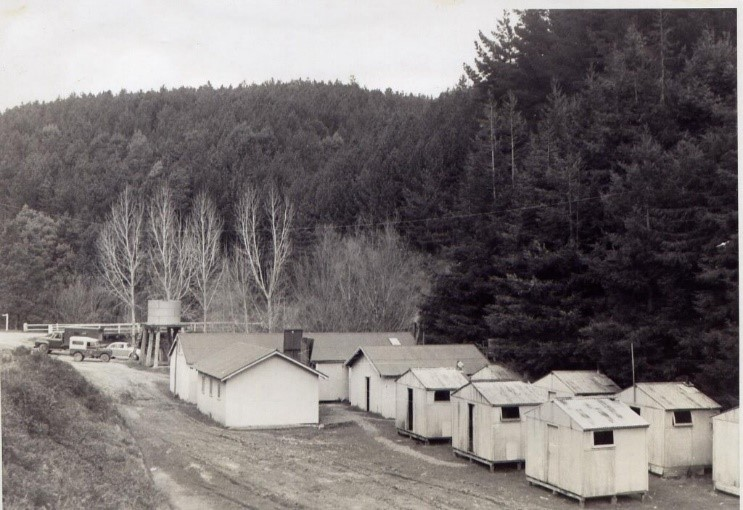 Aire Valley - Otways Ranges. Redwood Plantation - circa 1949